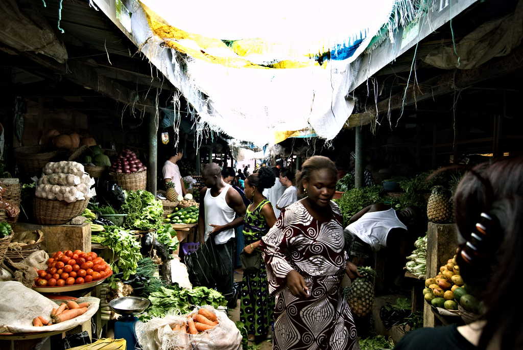 Lagos. Lekki Market where you can get all the wood carvings and veges and fruits and DVD's.